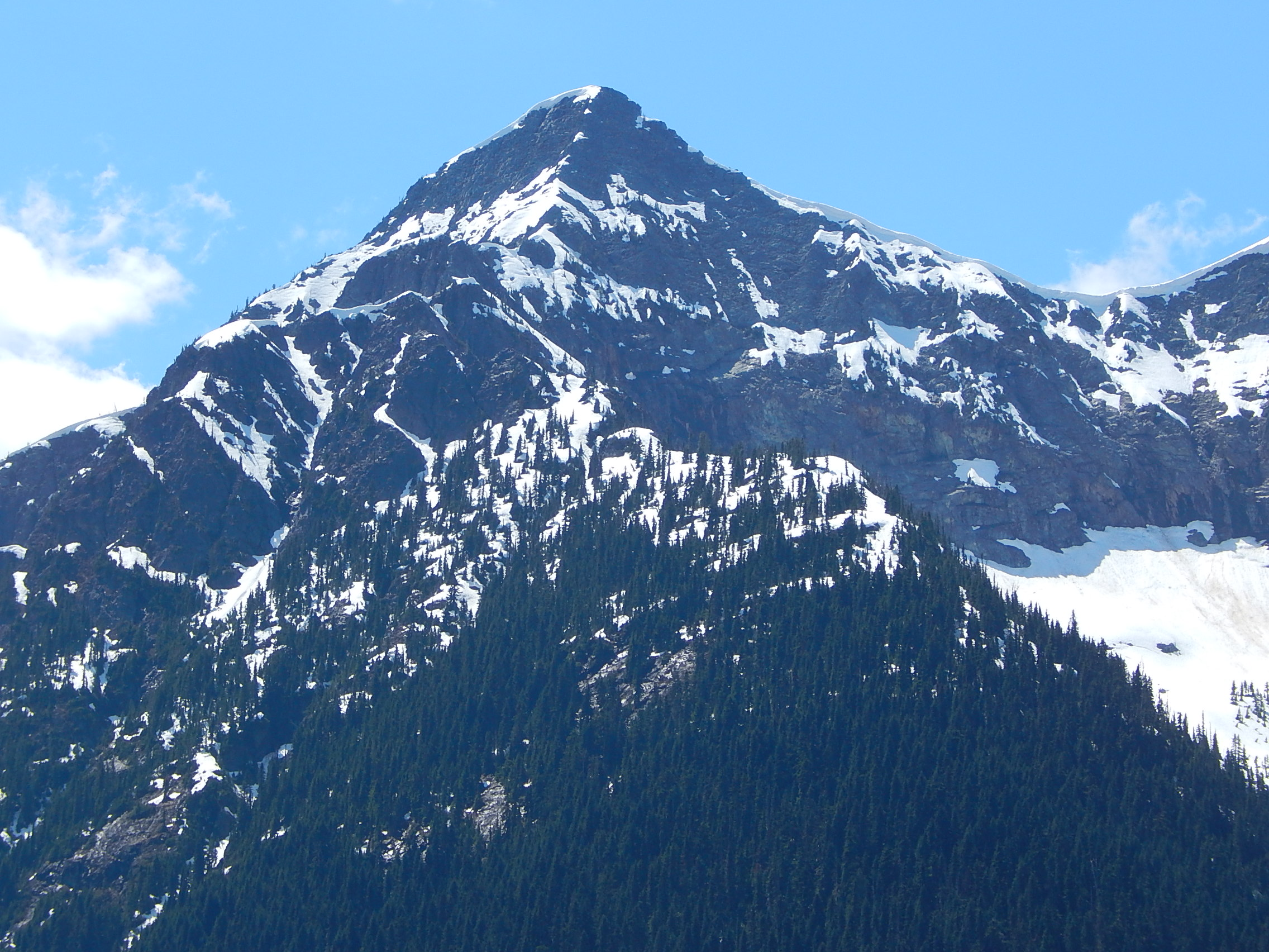 Black Beard Peak 7241 North Cascades mountain range seen from Highway 20